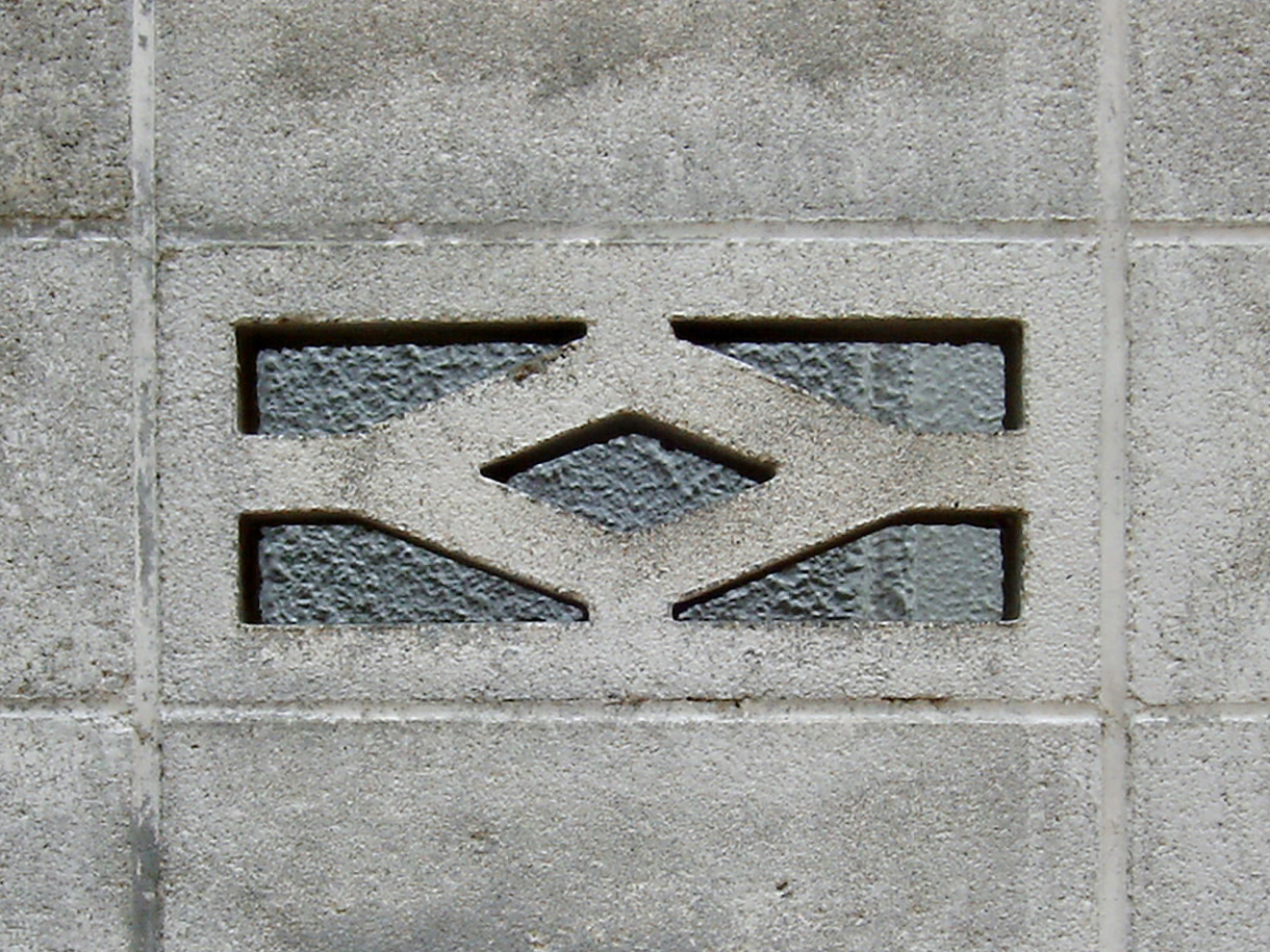 A concrete wall unit used in Kamakura, Kanagawa, Japan.